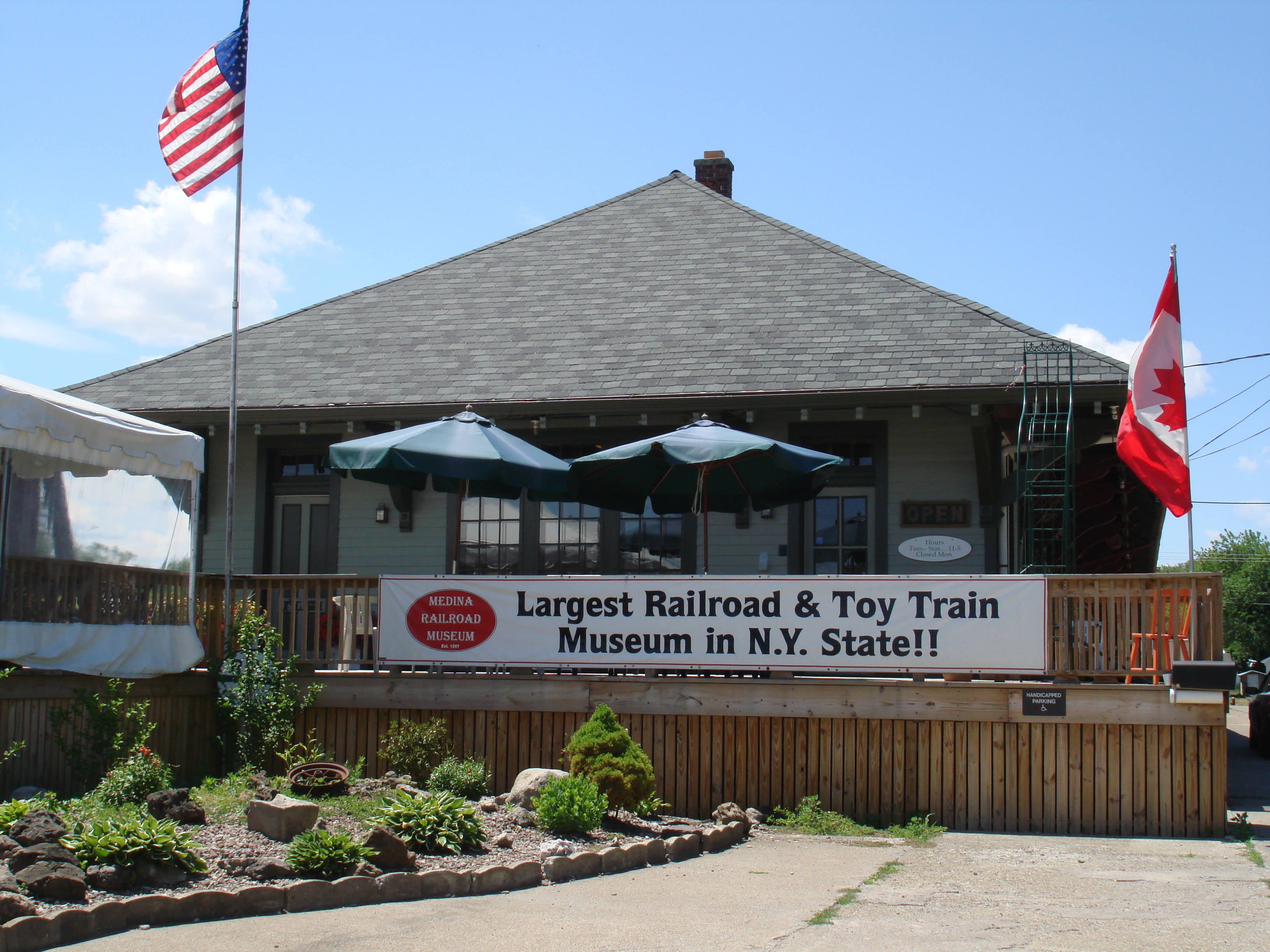 Exterior of the Medina Railroad Museum, in Medina, NY, U. S. A.